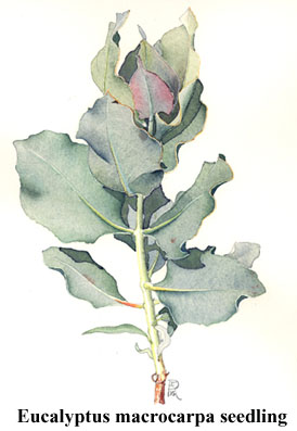 Eucalyptus macrocarpa seedling